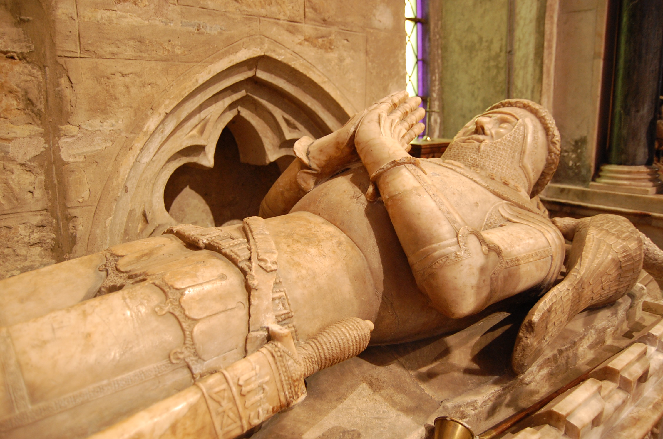 Tomb of William de Roos, 6th Lord Roos in St Mary's Church, Bottesford church: "Sir William de Roos, St Mary's church, Bottesford Born around 1368, married Margaret, daughter of Sir John De Arundel. they had 9 children, (the eldest John de Roos, also buried at Bottesford) Died at Belvoir 1414".[1]